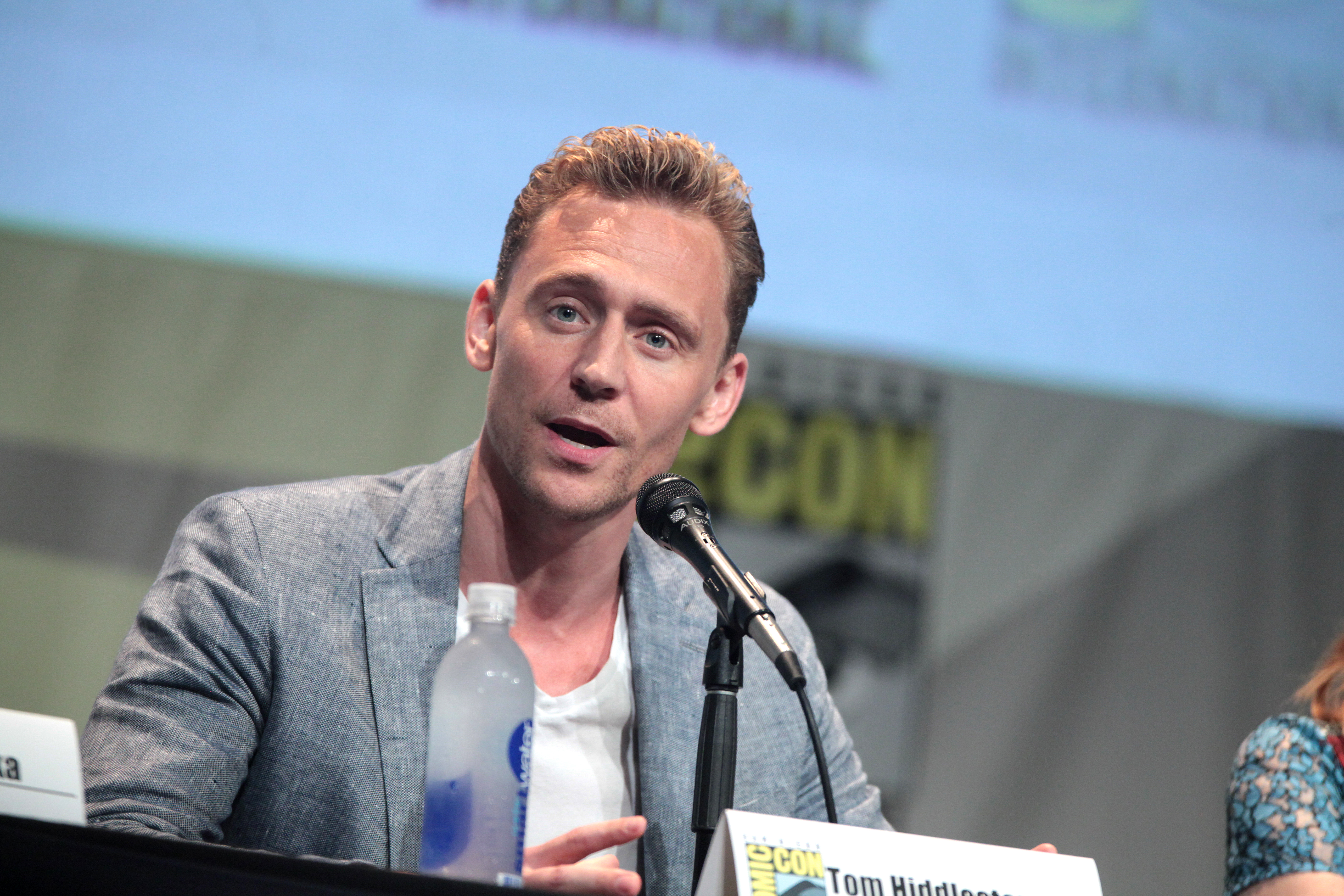 Tom Hiddleston speaking at the 2015 San Diego Comic Con International, for "Crimson Peak", at the San Diego Convention Center in San Diego, California.